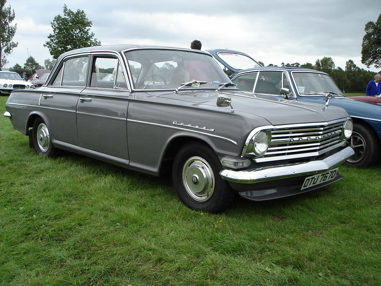 Vauxhall Cresta PB with 3.3 litre engine. 1966. Photo taken by myself on 3 September 2006, Cheshire, UK